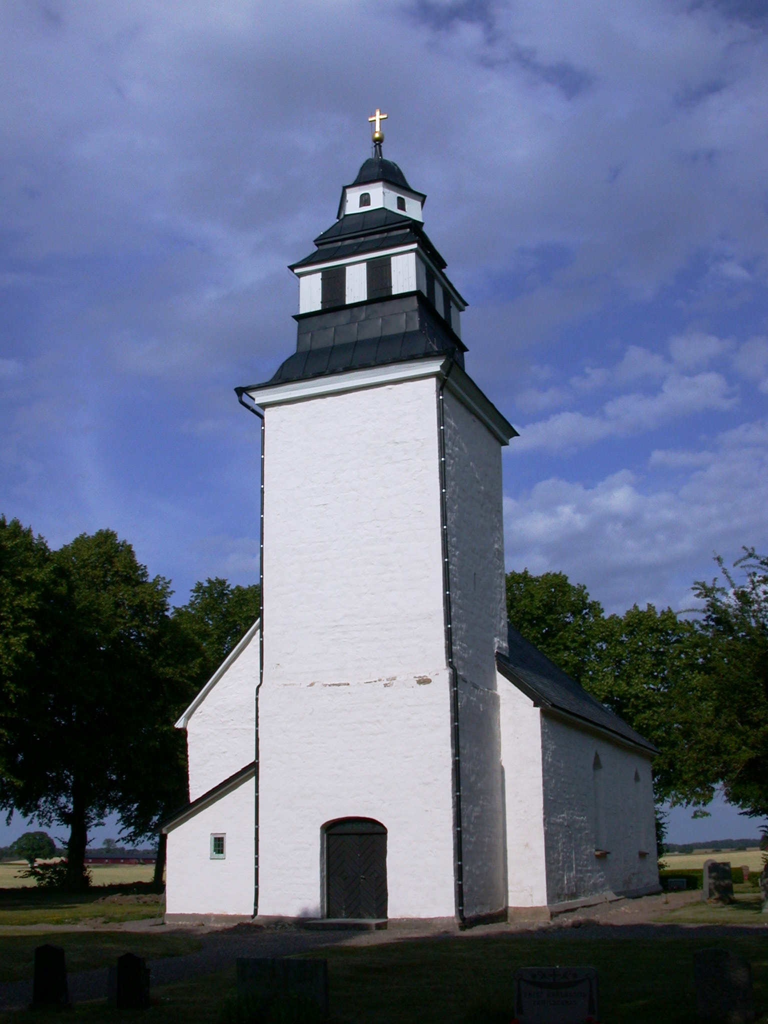 Strå church, Vadstena, Sweden.